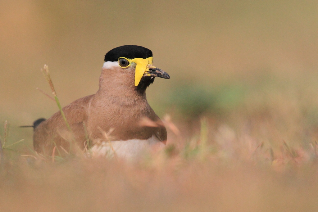 Yellow-wattled Lapwing @ Ameenpur lake